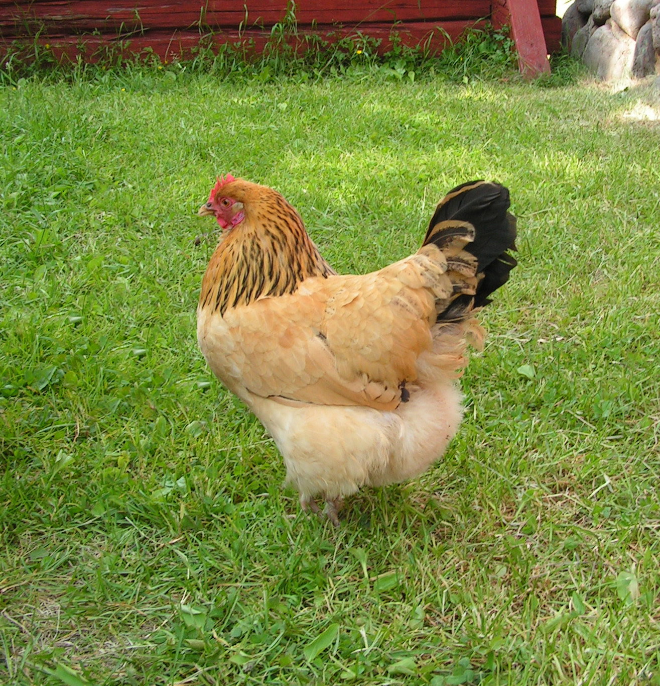 Hedemorahöna. Old breed of chickens from Hedemora, Sweden. Photo taken at Gammlia, Umeå, Sweden.